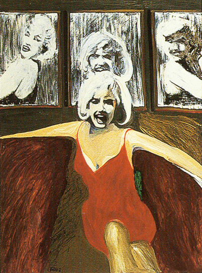 Left part of James Gill's painting "Marylin Tryptich"